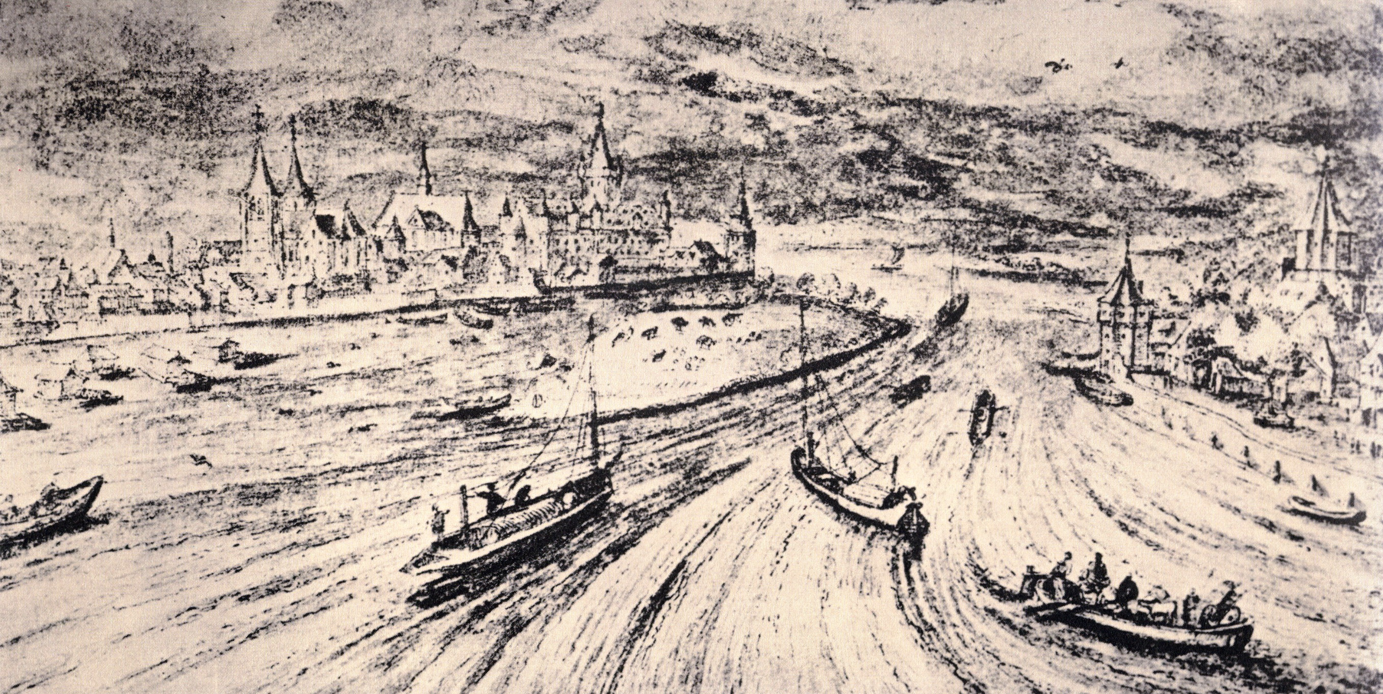 View of the Meuse river in Maastricht, drawing by Pieter Stevens the Younger, c. 1600, in the collection of the Staatliche Kunstsammlungen, Weimar, Germany.